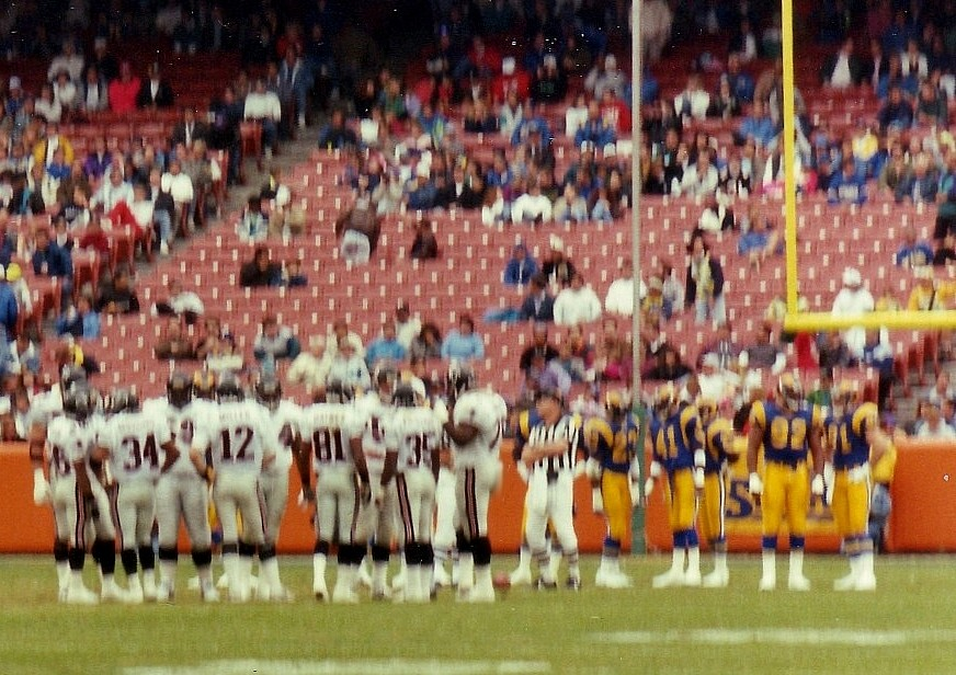 The Los Angeles Rams playing host to the Atlanta Falcons during a December 8, 1991 home game at Anaheim Stadium. This photograph was taken using an unspecified 35mm camera and scanned using a Canon CanoScan LiDE 60 scanner